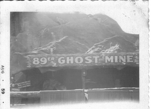 I took picture with Kodak Brownie Hawkeye camera.